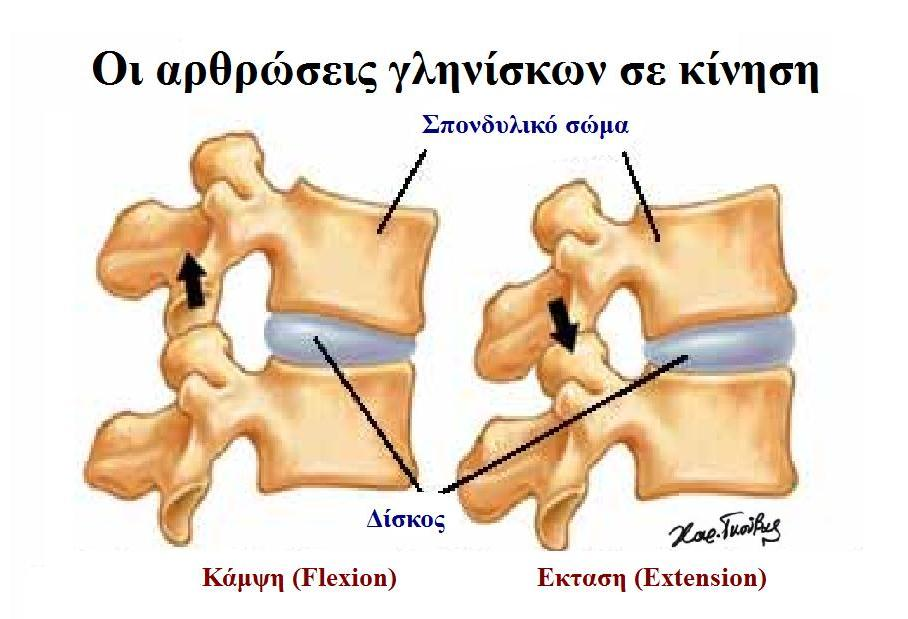 Facet Joints Motion